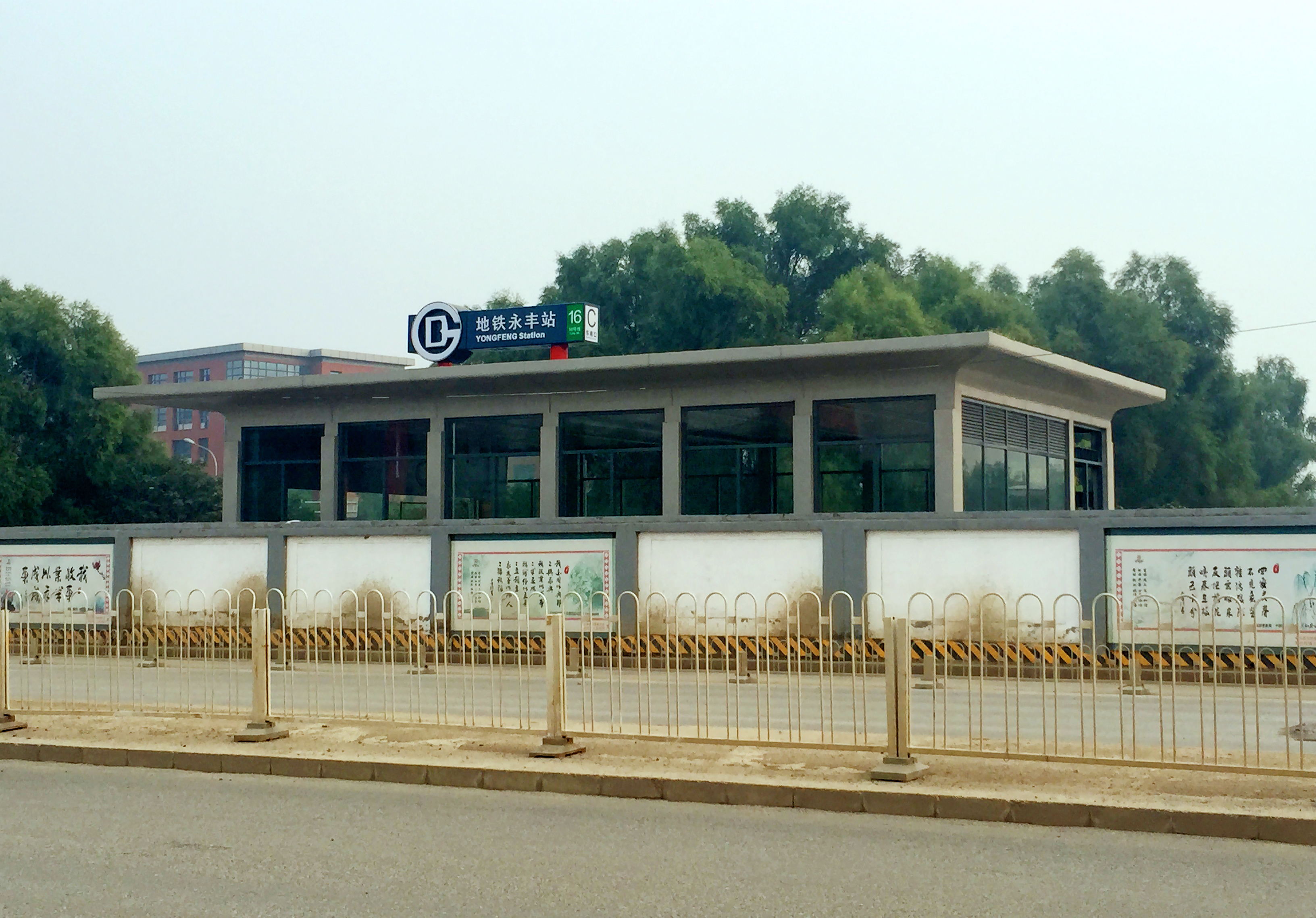 Sign installed! Hey, where's the lift?